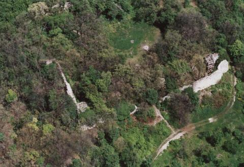 Pécsely - castle, Hungary, aerialphotography